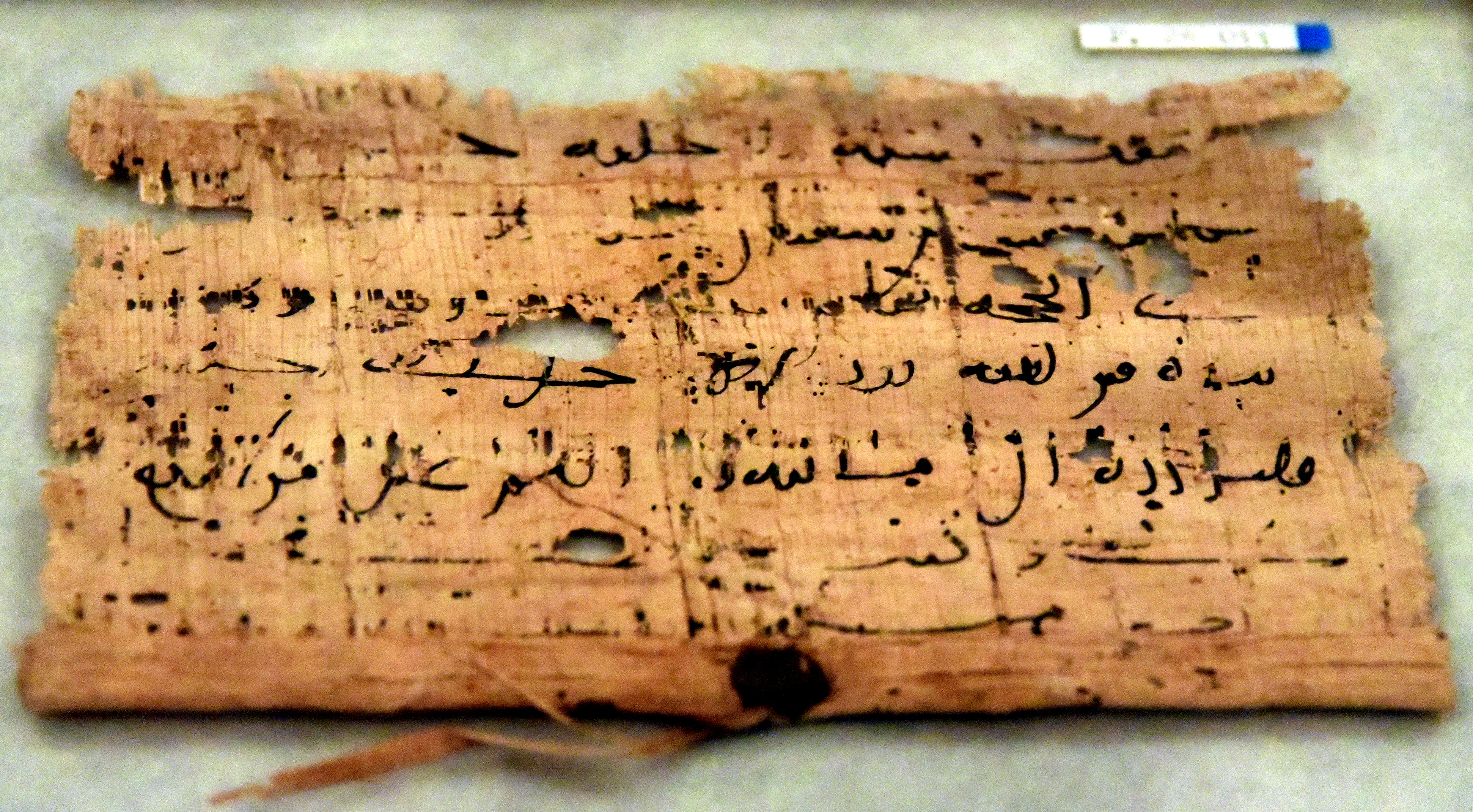 Arabic papyrus (with Nile mud and seal) with an exit permit, dated January 24, 722 CE, pointing to the regulation of travel activities. From Hermopolis Magna, Egypt. It was displayed at the Neues Museum in Berlin, Germany, Exhibition of "Cinderella, Sindbad & Sinuhe, Arab-German Storytelling Traditions", April 18, 2019, to August 18, 2019. State Museums of Berlin, Egyptian Museum and Papyrus Collection (Staatliche Museen zu Berlin, Ägyptisches Museum und Papyrussammlung, P 24011).